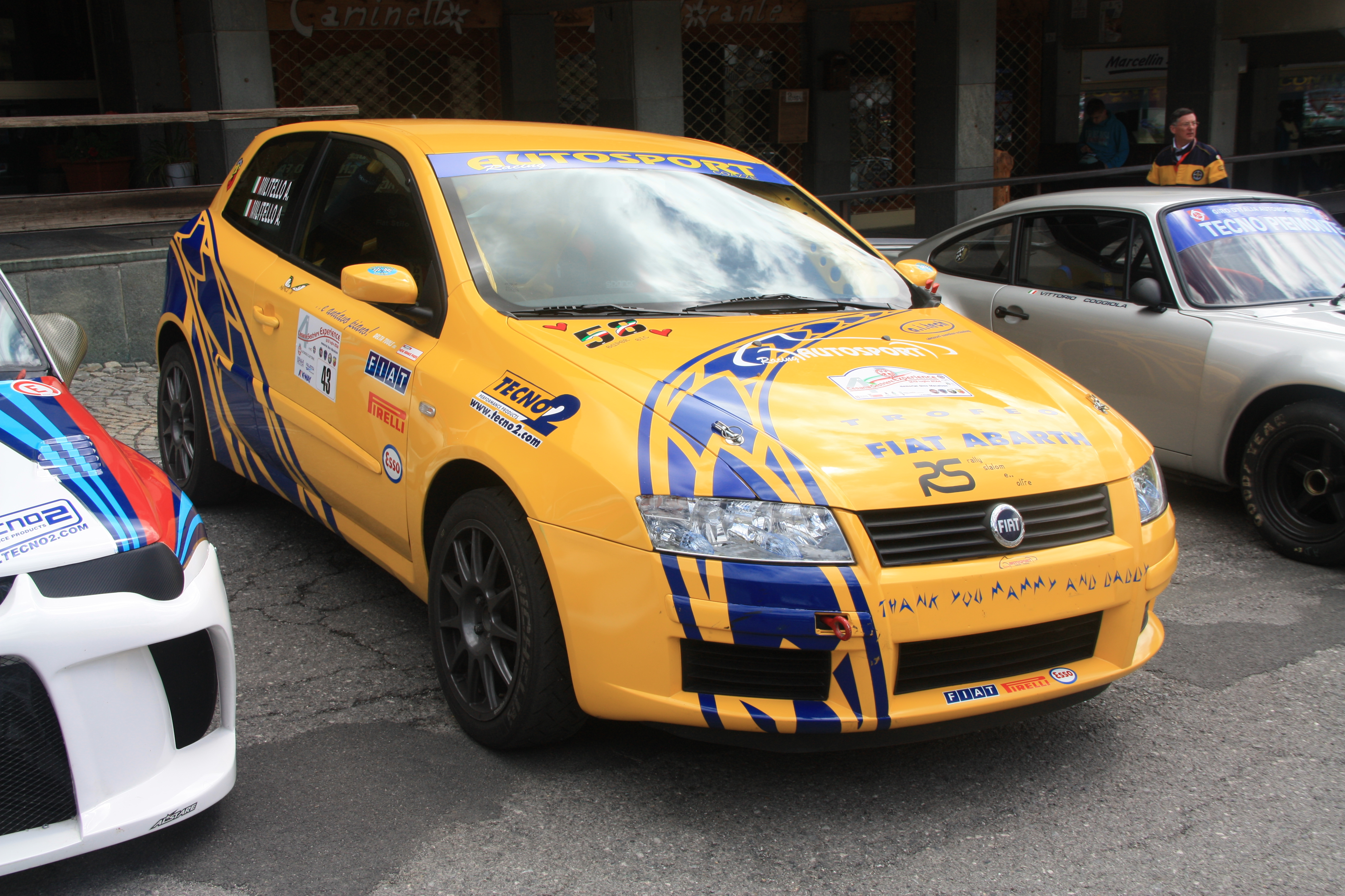 Fiat Stilo Abarth Rally at the 4th Cesana-Sestriere Experience, 13 July 2014.